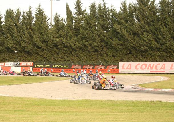 kart